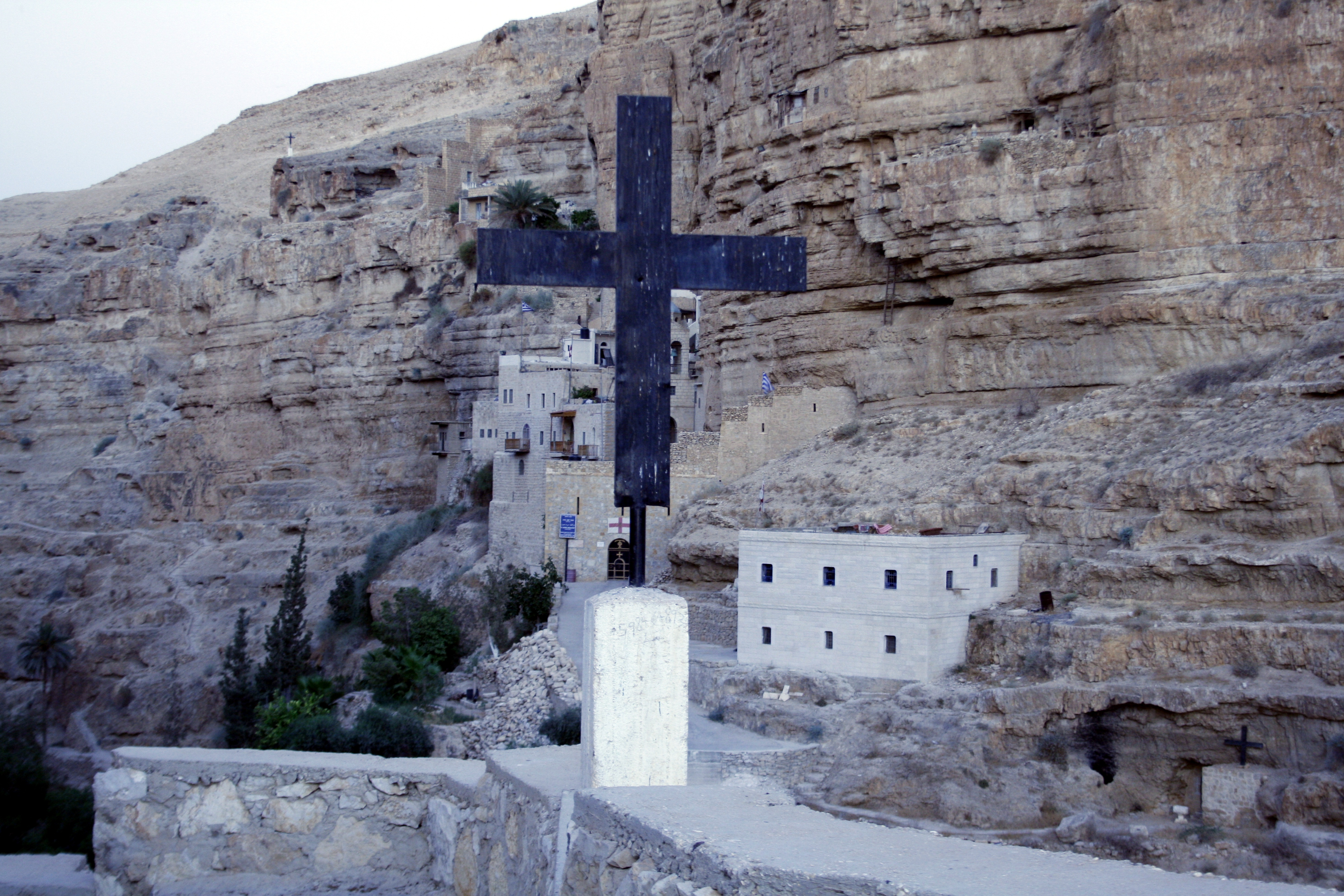 St. George Monastery with wayside cross in the foreground.